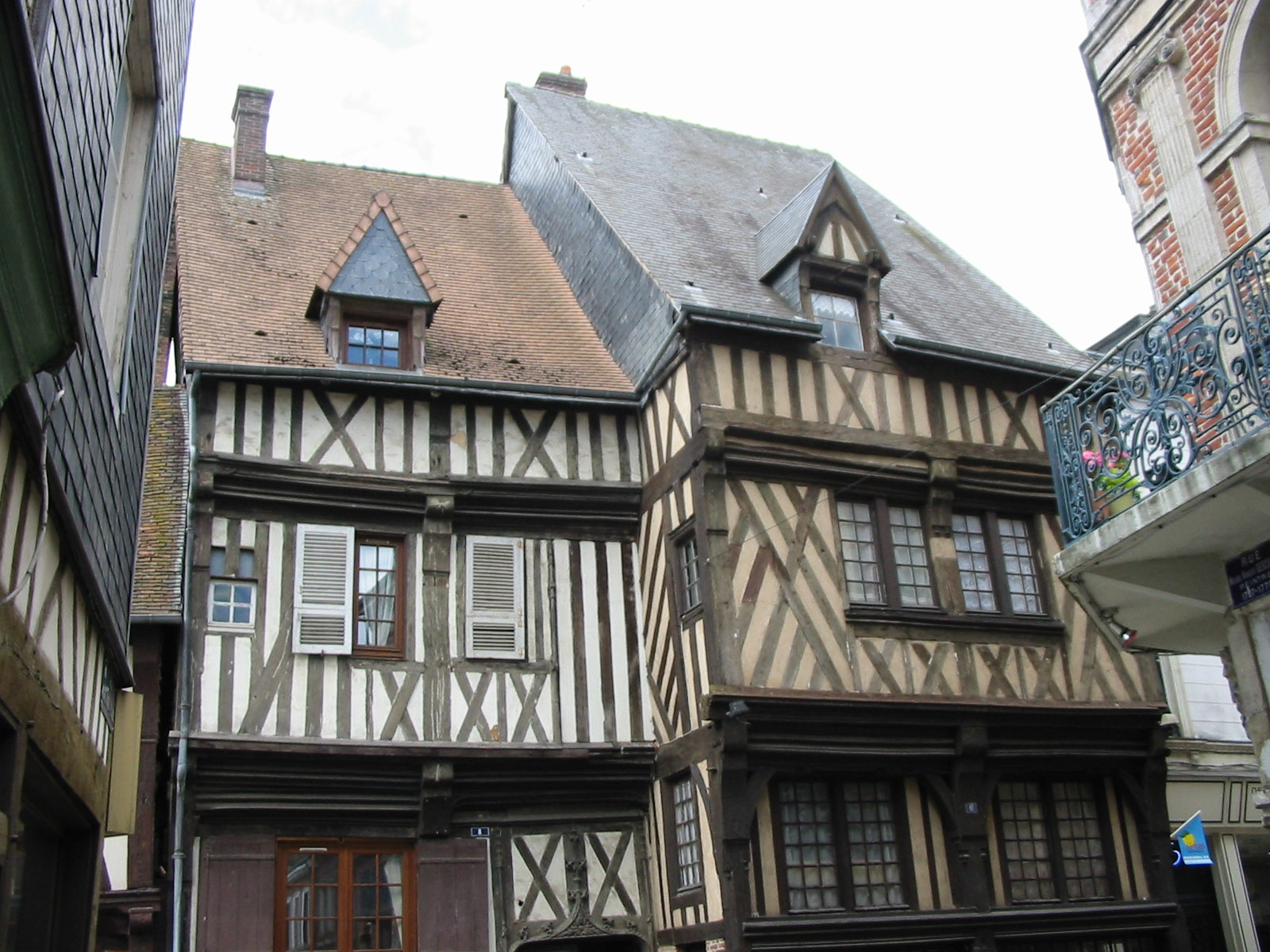 Bernay (France, Eure): old house